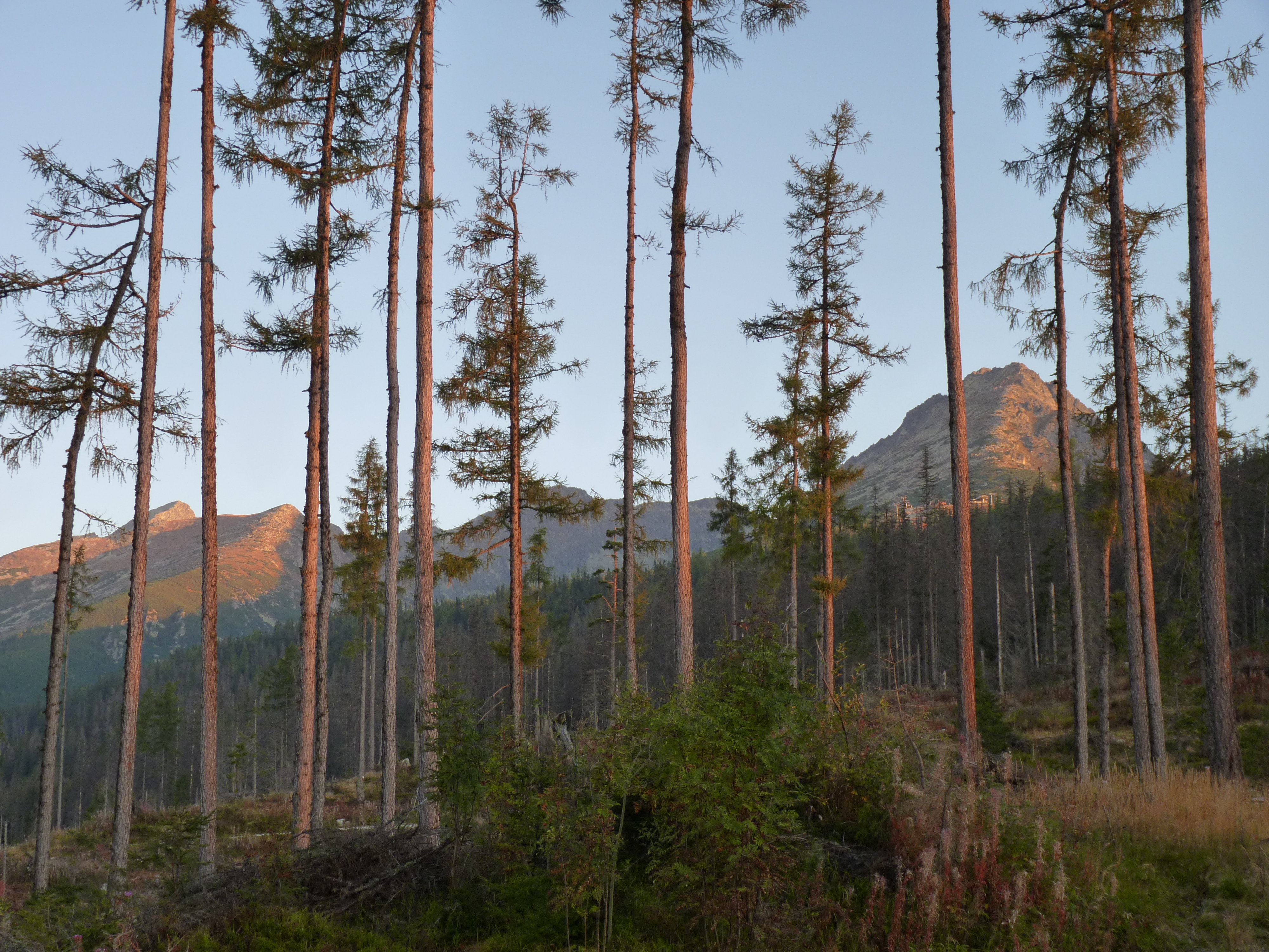 Furkotská valley. The Hight Tatra Mountains, Slovakia